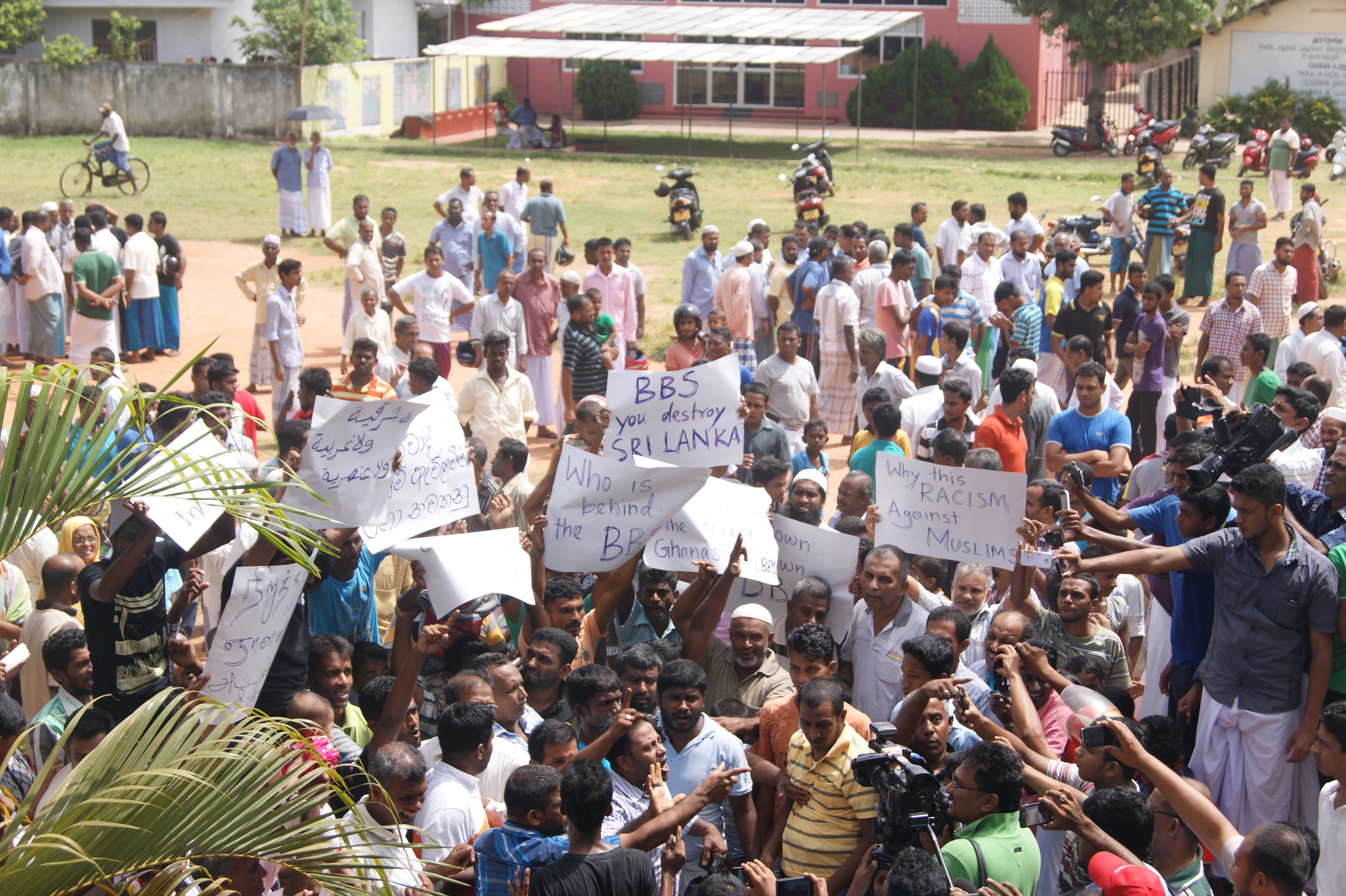 SONY DSC Snapshots from Beruwela and Aluthgama, Sri Lanka on 19 June 2014.